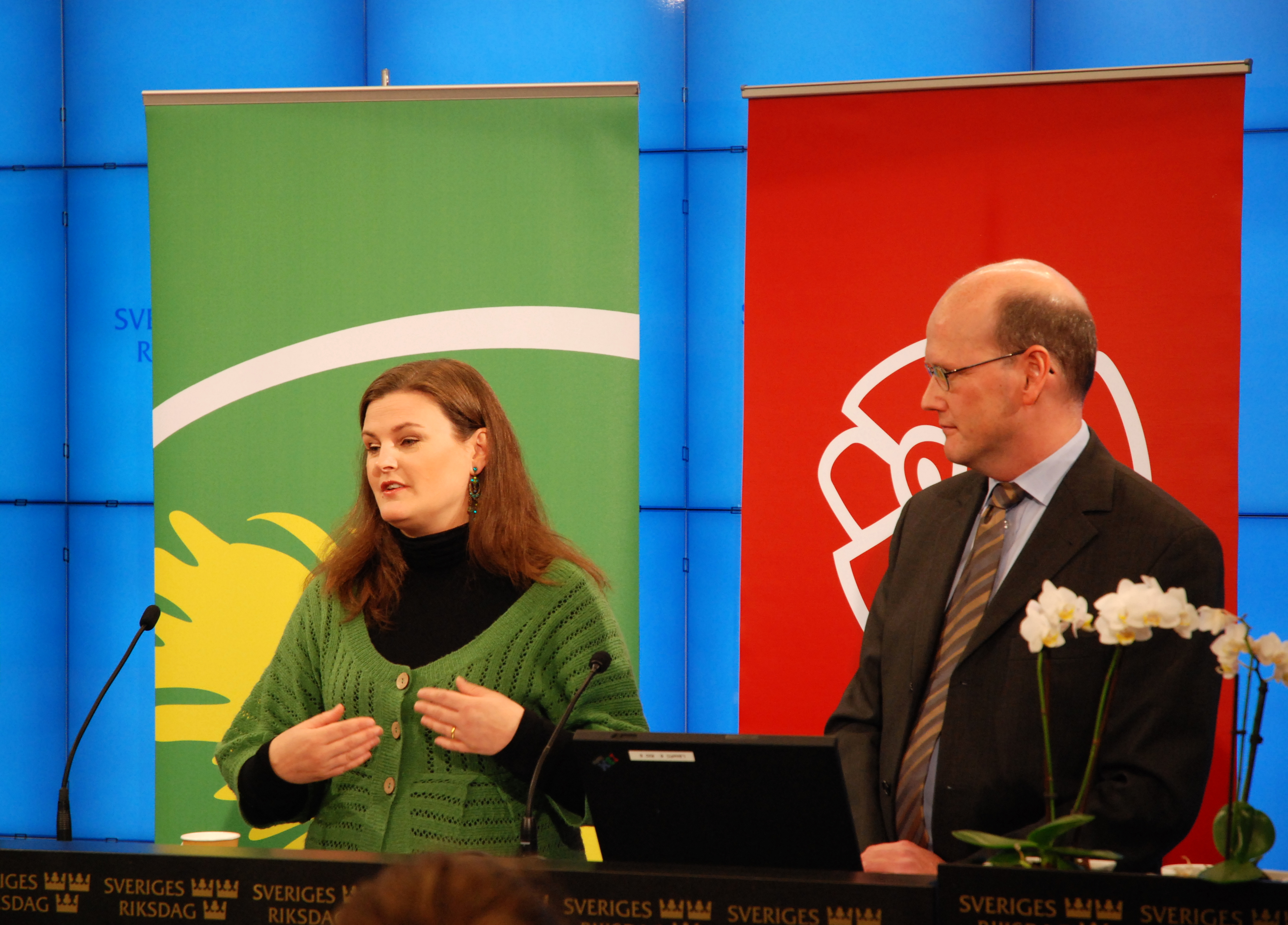 Photo from a press conference, where the swedish greens and socialdemocrats for the first time presented a common budget initiative. The topic was education and jobs. The persons on the photo is Mikaela Valtersson (green) and Thomas Östros (social democrat)